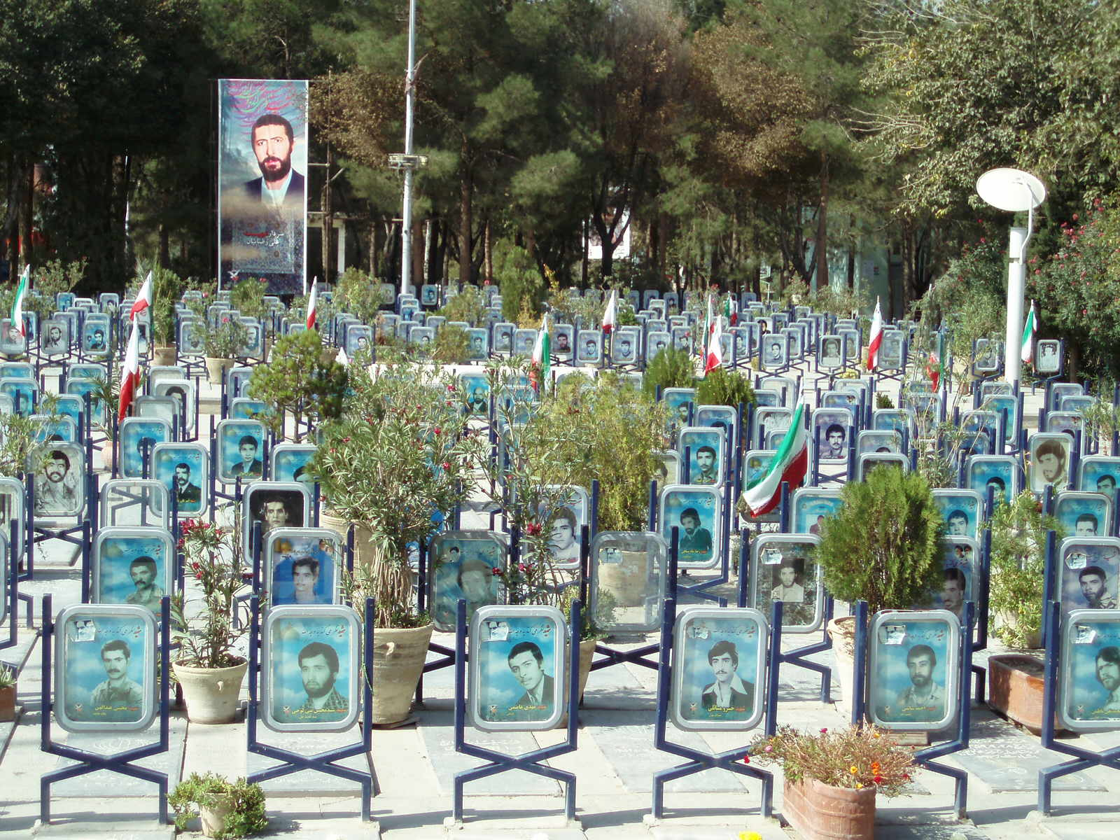 Iran 2007 229 Golestan War Heros